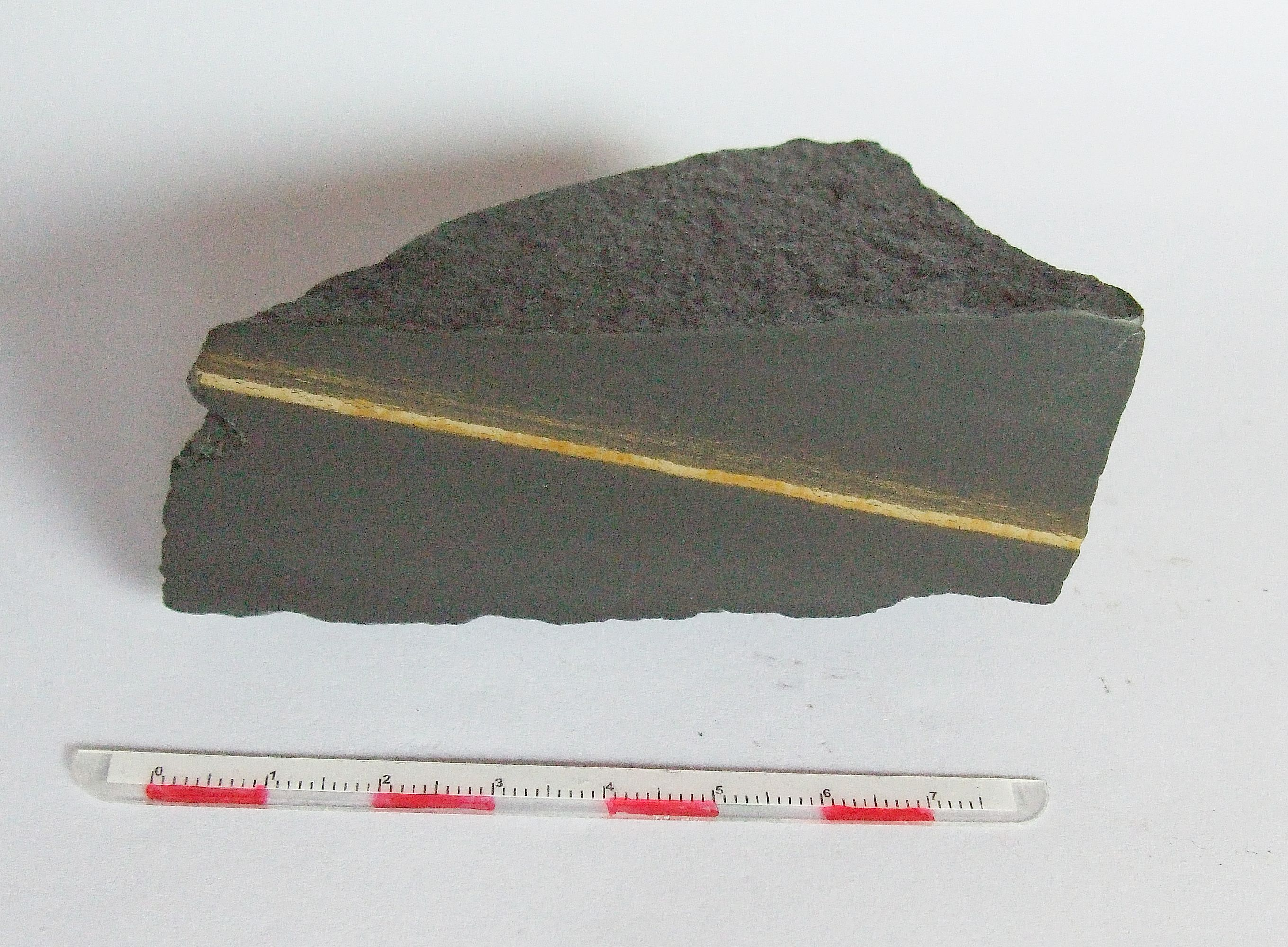 copper shale with a layer of sulfidic ore minerals. Origin: Mansfeld copper shale mining district, Saxony-Anhalt, Germany.